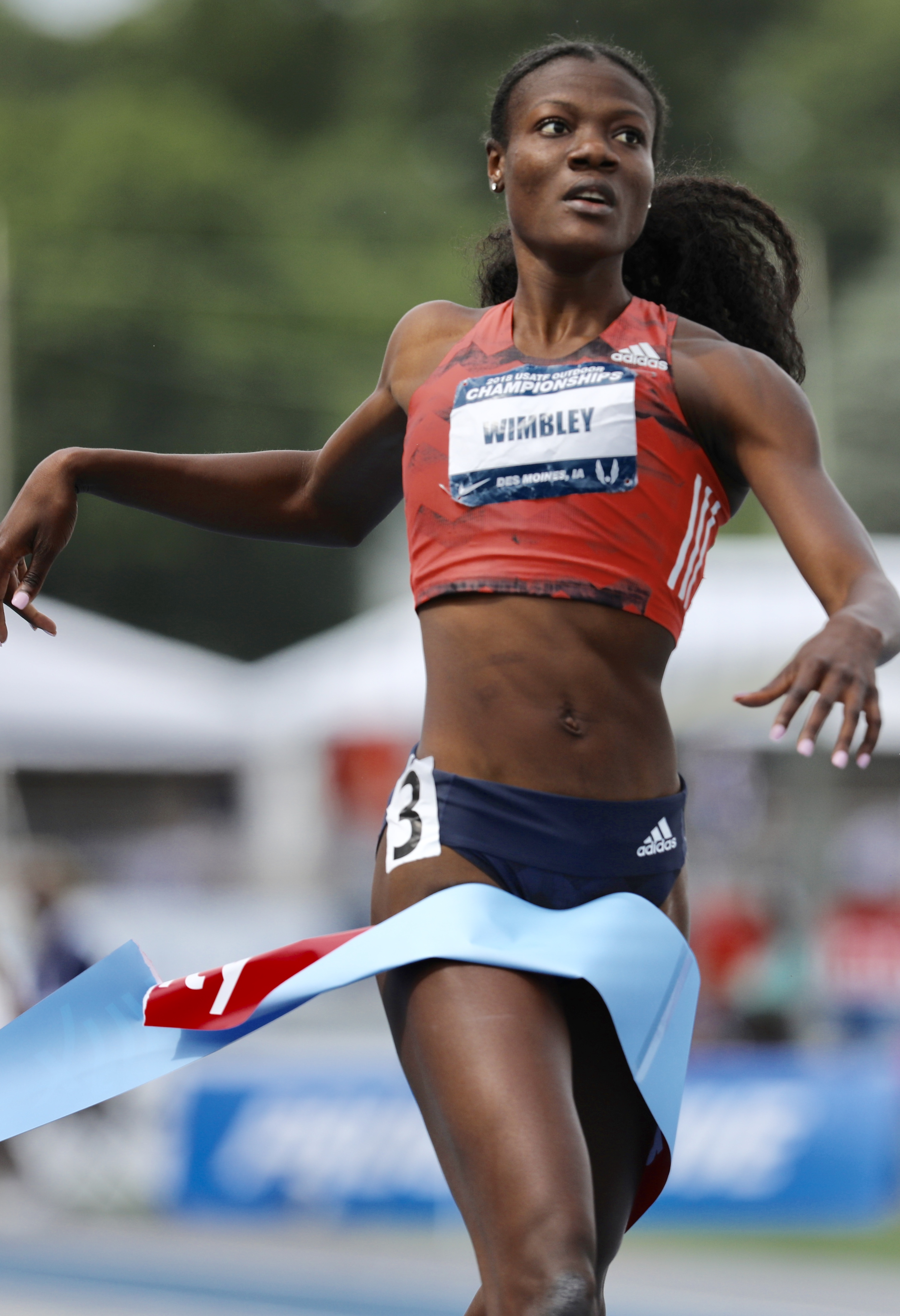 2018 USA Outdoor Track and Field Championships